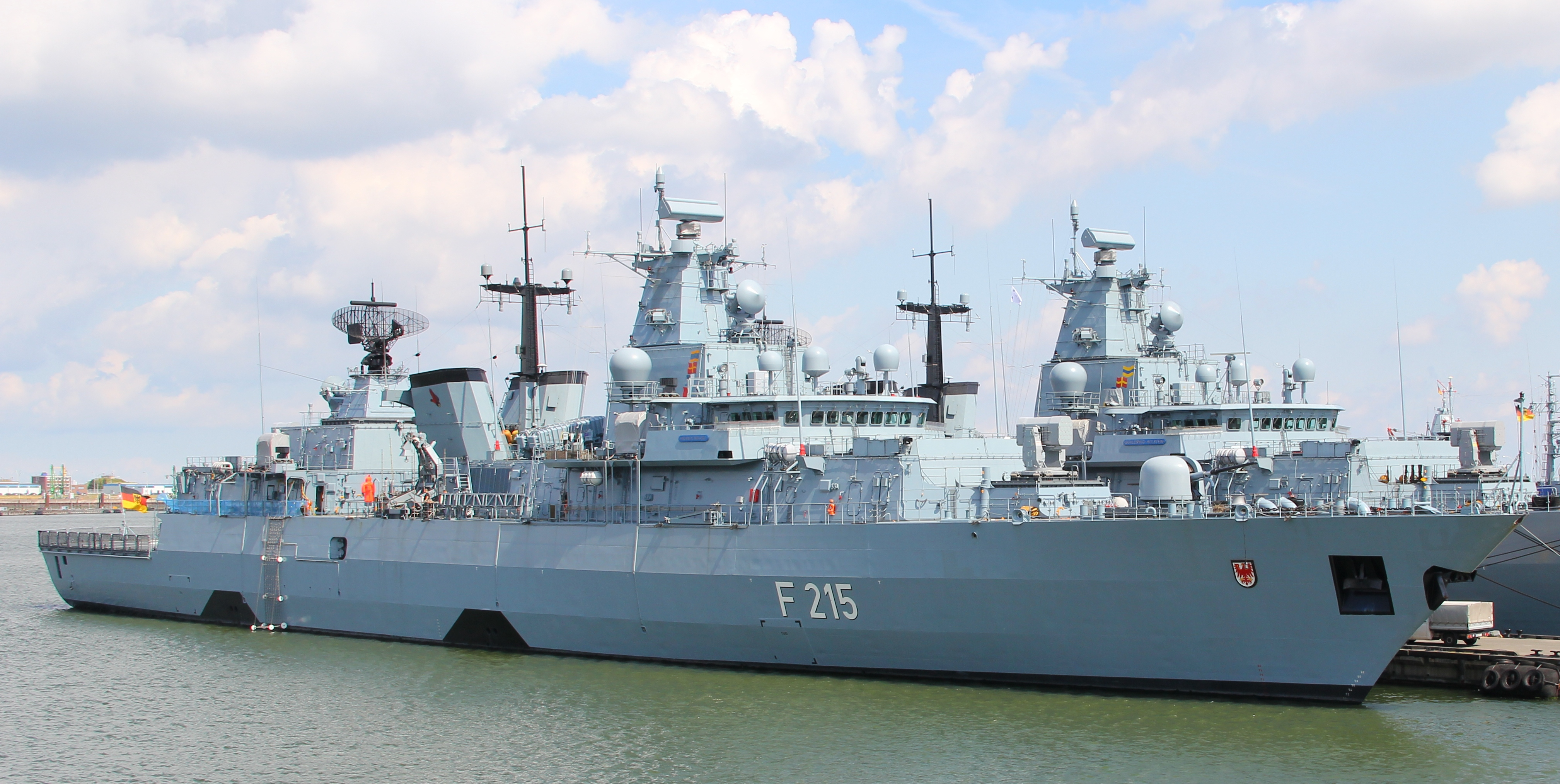 Fregatte Brandenburg, F215